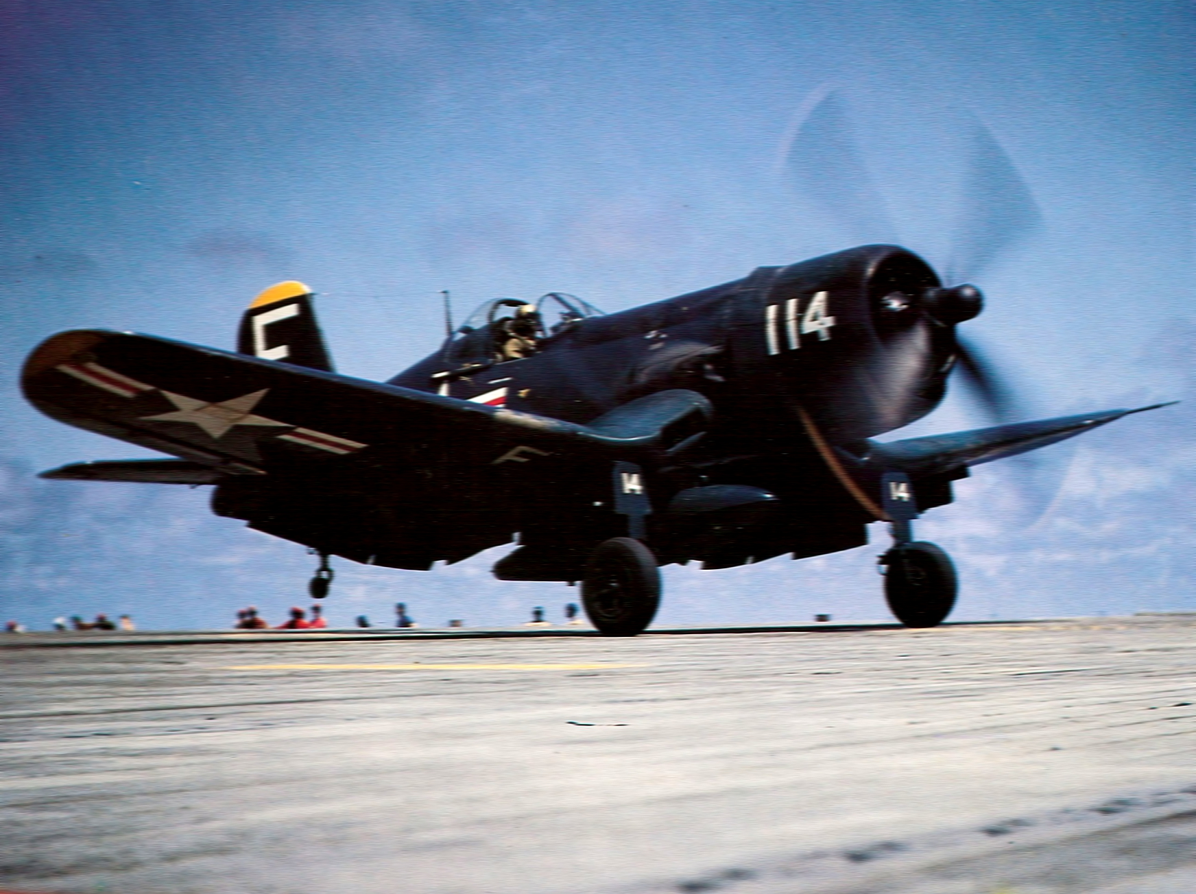 A U.S. Navy Vought F4U-4 Corsair from Fighter Squadron 44 (VF-44) "Hornets" taking off from the flight deck of the aircraft carrier USS Boxer (CVA-21) for a strike into North Korea in June of 1953. VF-44 was assigned to Air Task Group 1 (ATG-1) aboard the Boxer for a deployment to Korea and the Western Pacific from 30 March to 28 November 1953.